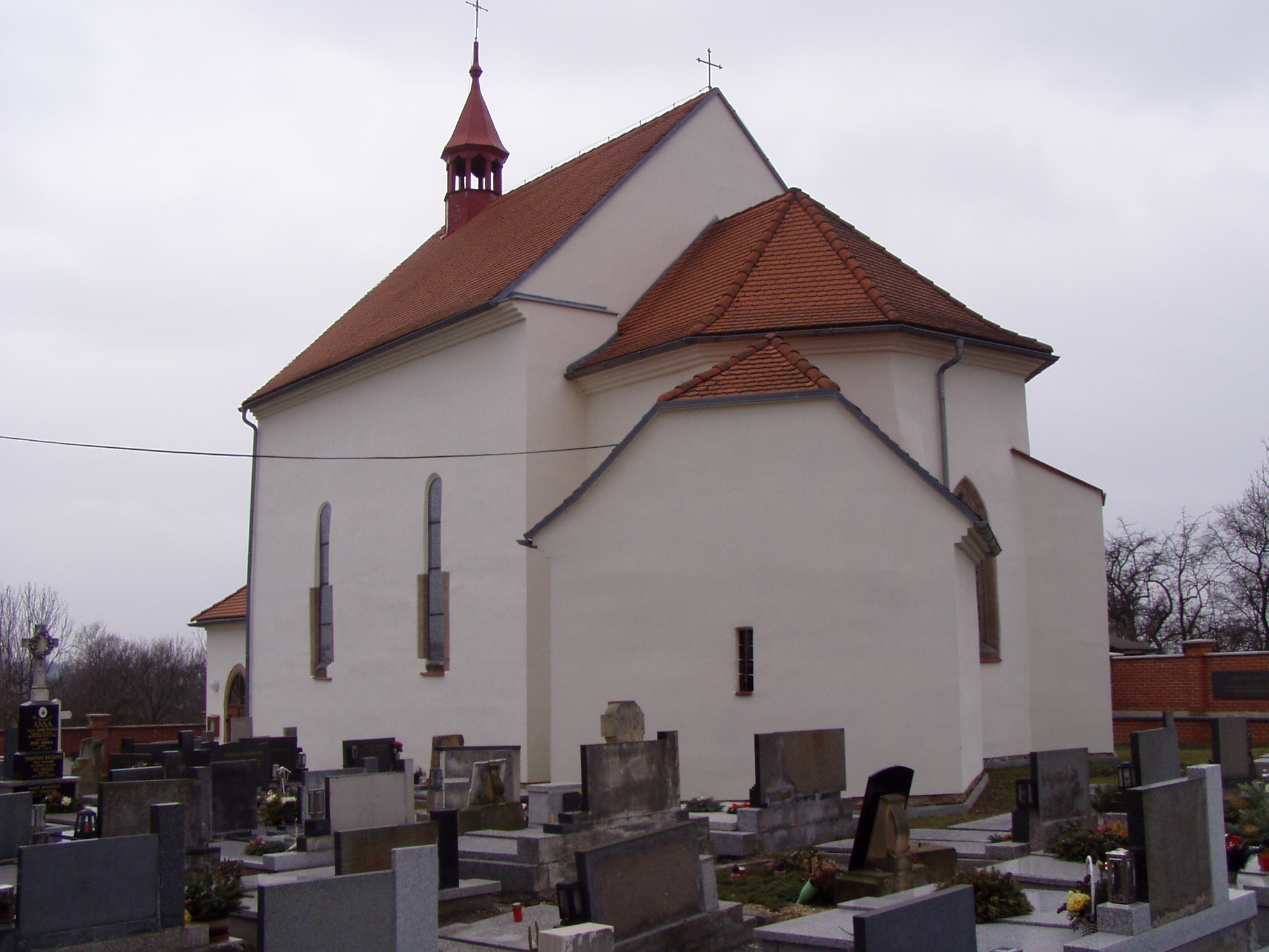 Church of Saint James the Greater (Černčice)